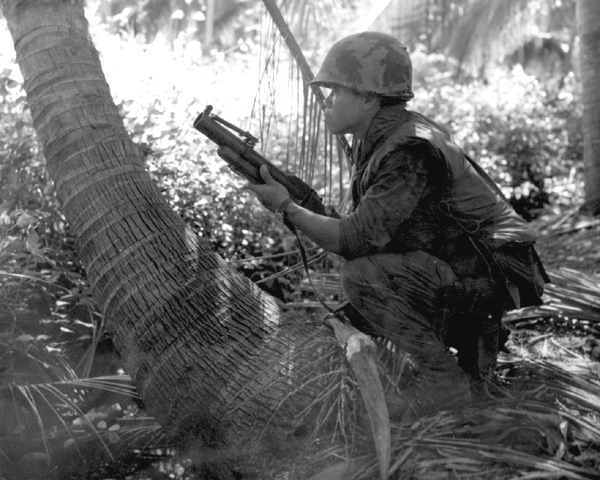 Soldiers of the Royal Thai Army Volunteer Regiment (Queen's Cobras) conduct a search and sweep mission in Phuoc Tho.